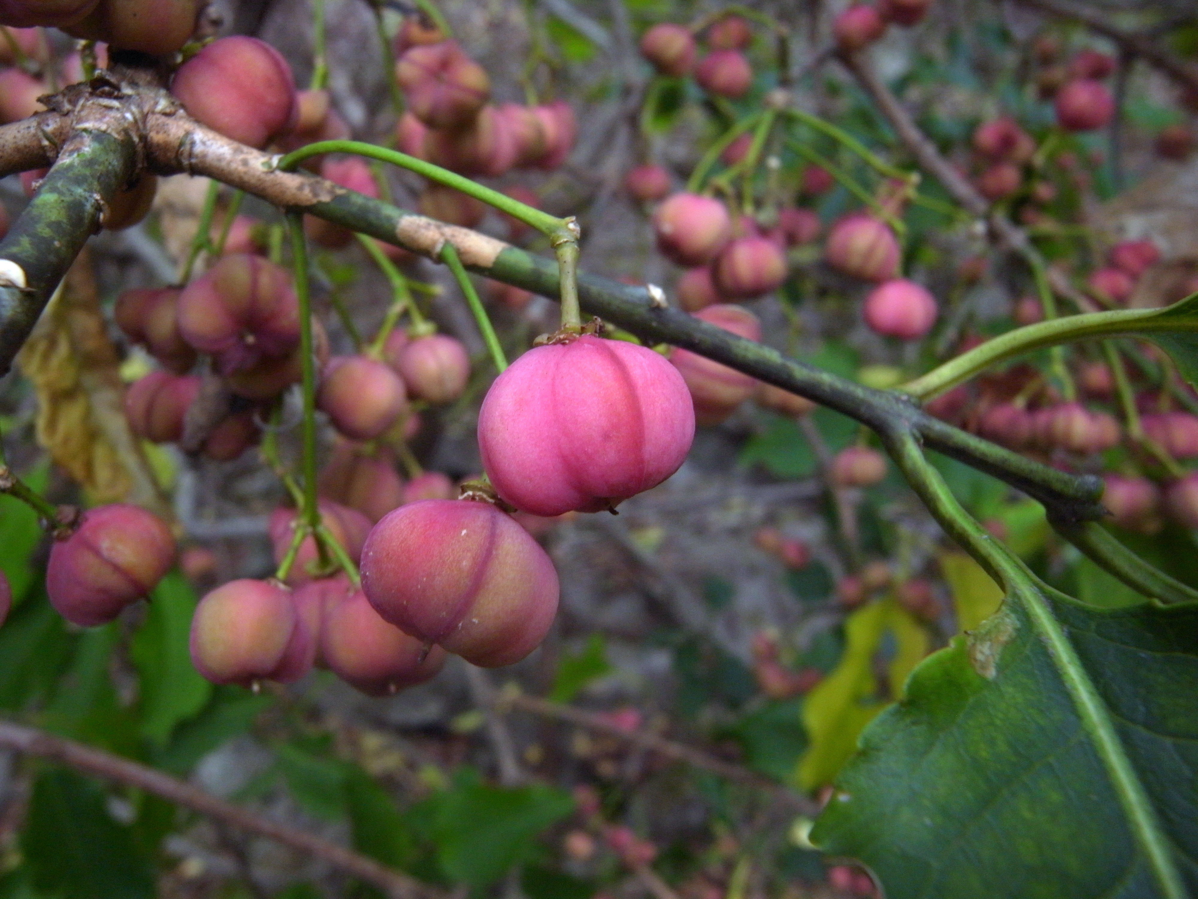 Euonymus hamiltonianus